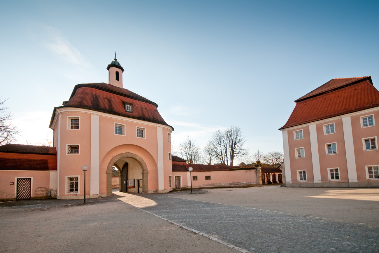 Monastery Gate, Monastery Wiblingen, Ulm, Germany